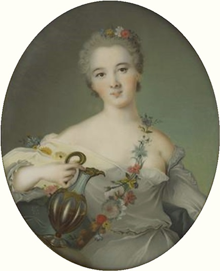 Louise Henriette de Bourbon